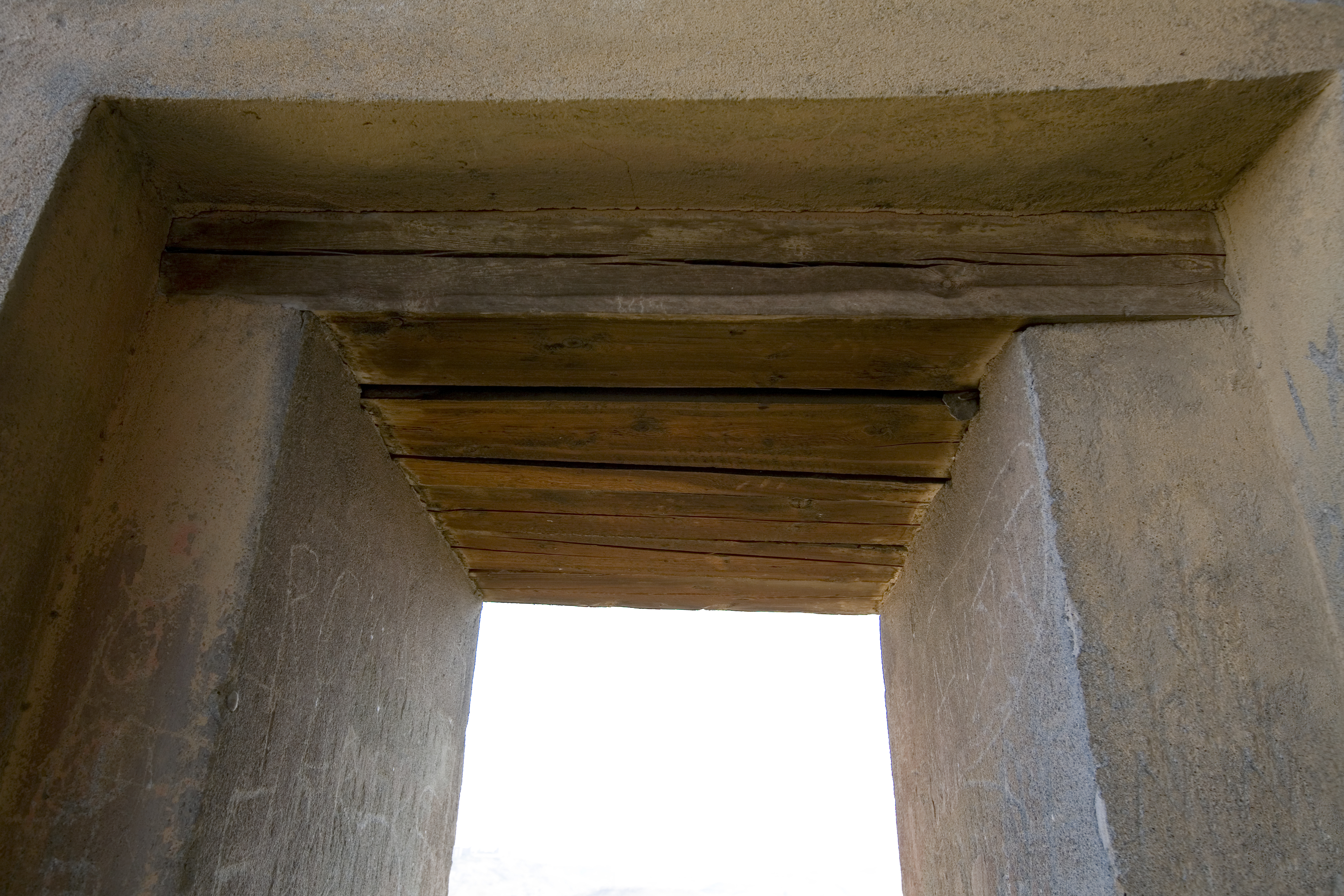 Erebuni, door (contemporary reconstruction)